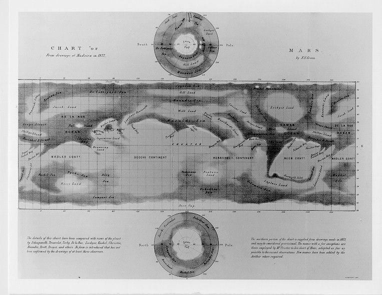 Map of Mars drawn by Nathaniel Everett Green in 1877 (died 1899).Green used Richard Anthony Proctor's nomenclature and introduced some of his own; these names were later superseded by the nomenclature of Giovanni Schiaparelli. Thus, for example the "Kaiser Sea" is the modern-day Syrtis Major Planum, and "Secchi Continent" is Tharsis.)